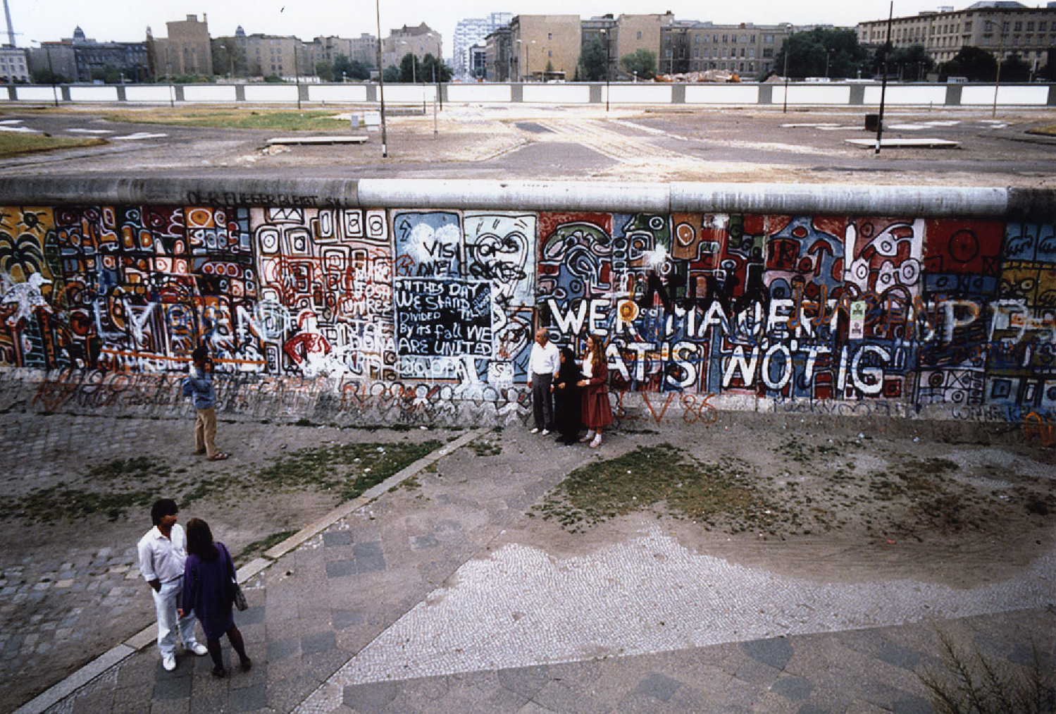 Looking at part of the Berlin Wall from a platform near Potsdamer Platz in 1986. Photo by Nancy Wong